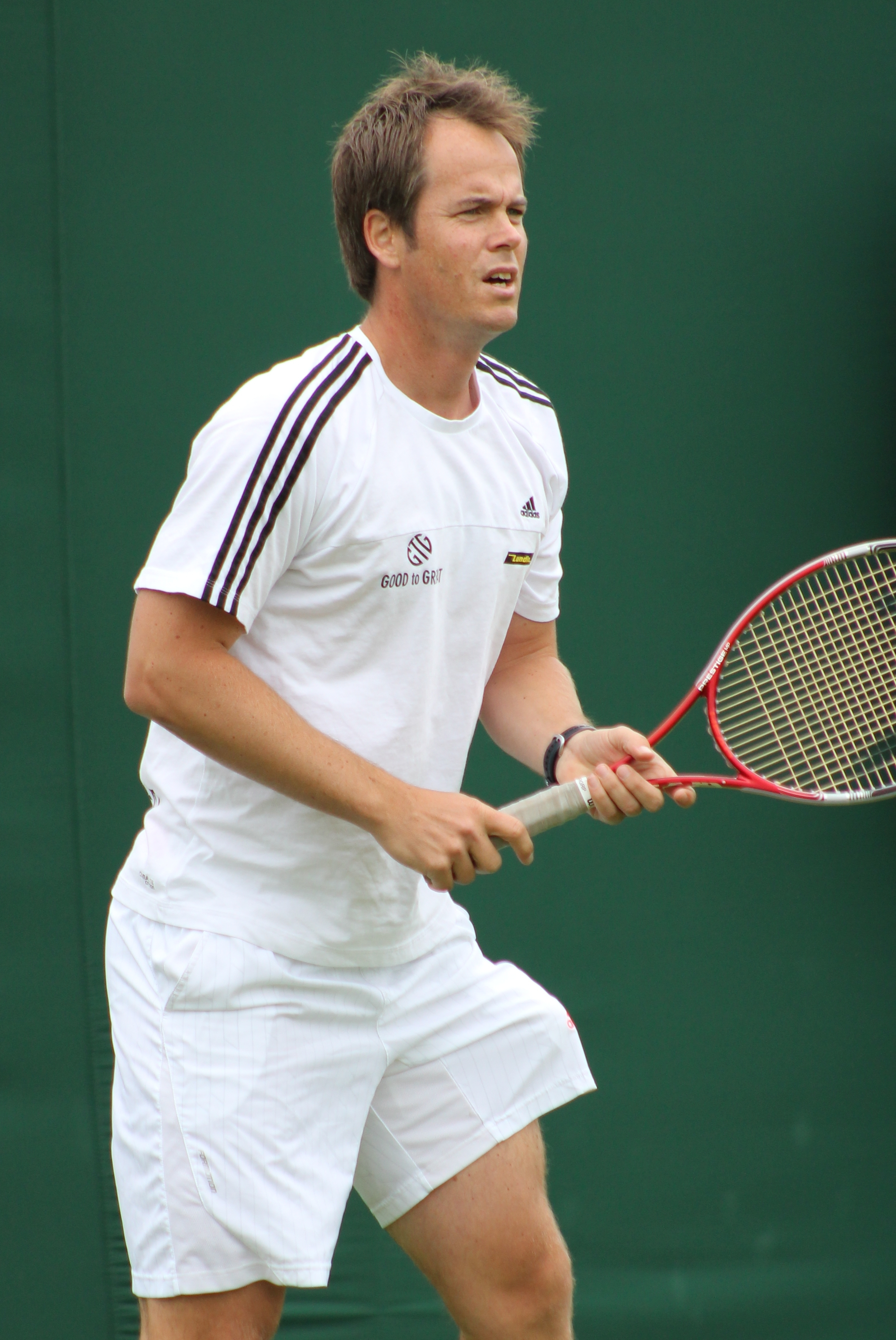 Magnus Norman (now coaching Stanislas Wawrinka) hitting with Wawrinka at Wimbledon 2013